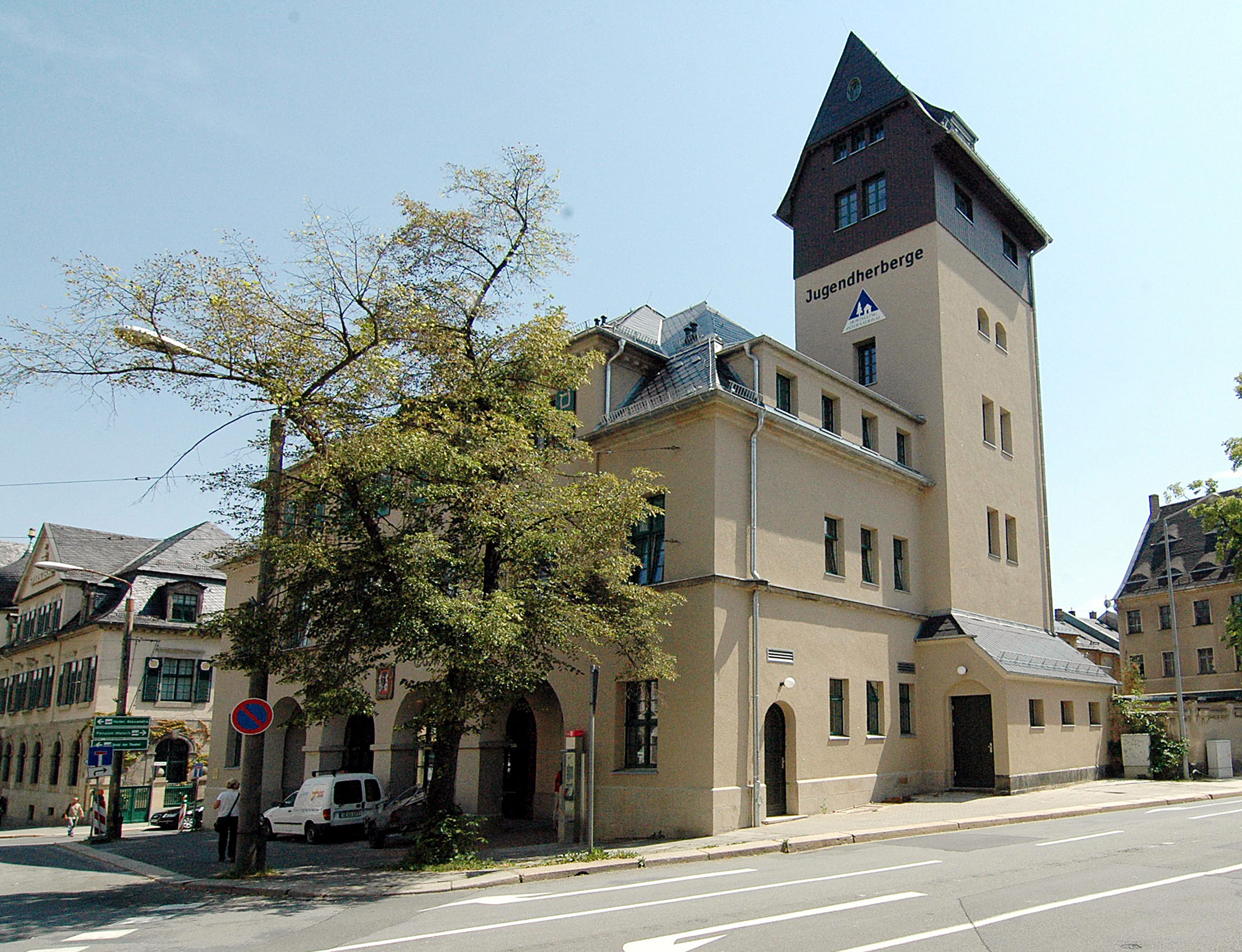 Picture of the youth hostel Plauen